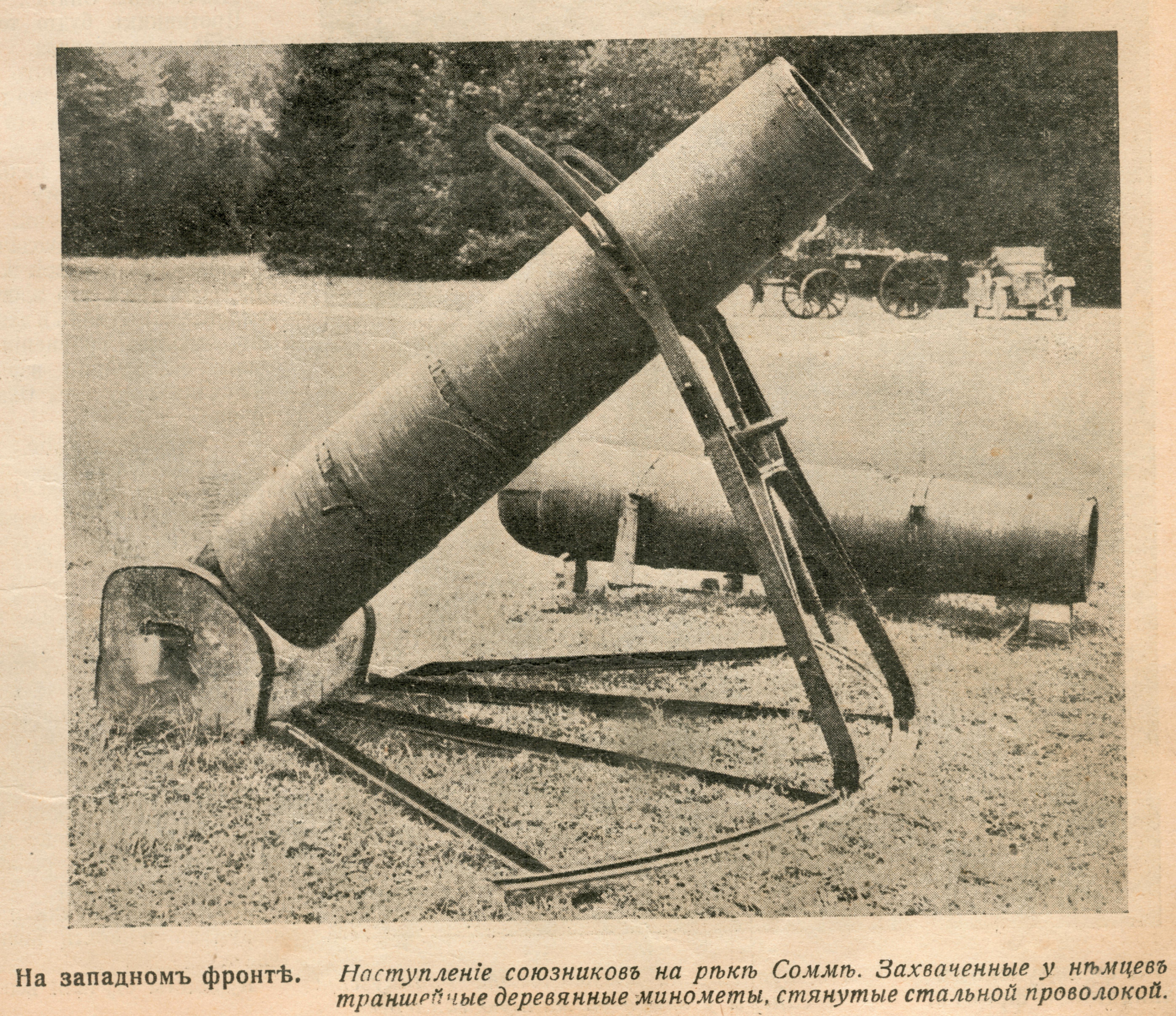 German "Albrecht" mortars of World War I. Constructed of wooden staves wrapped with wire.